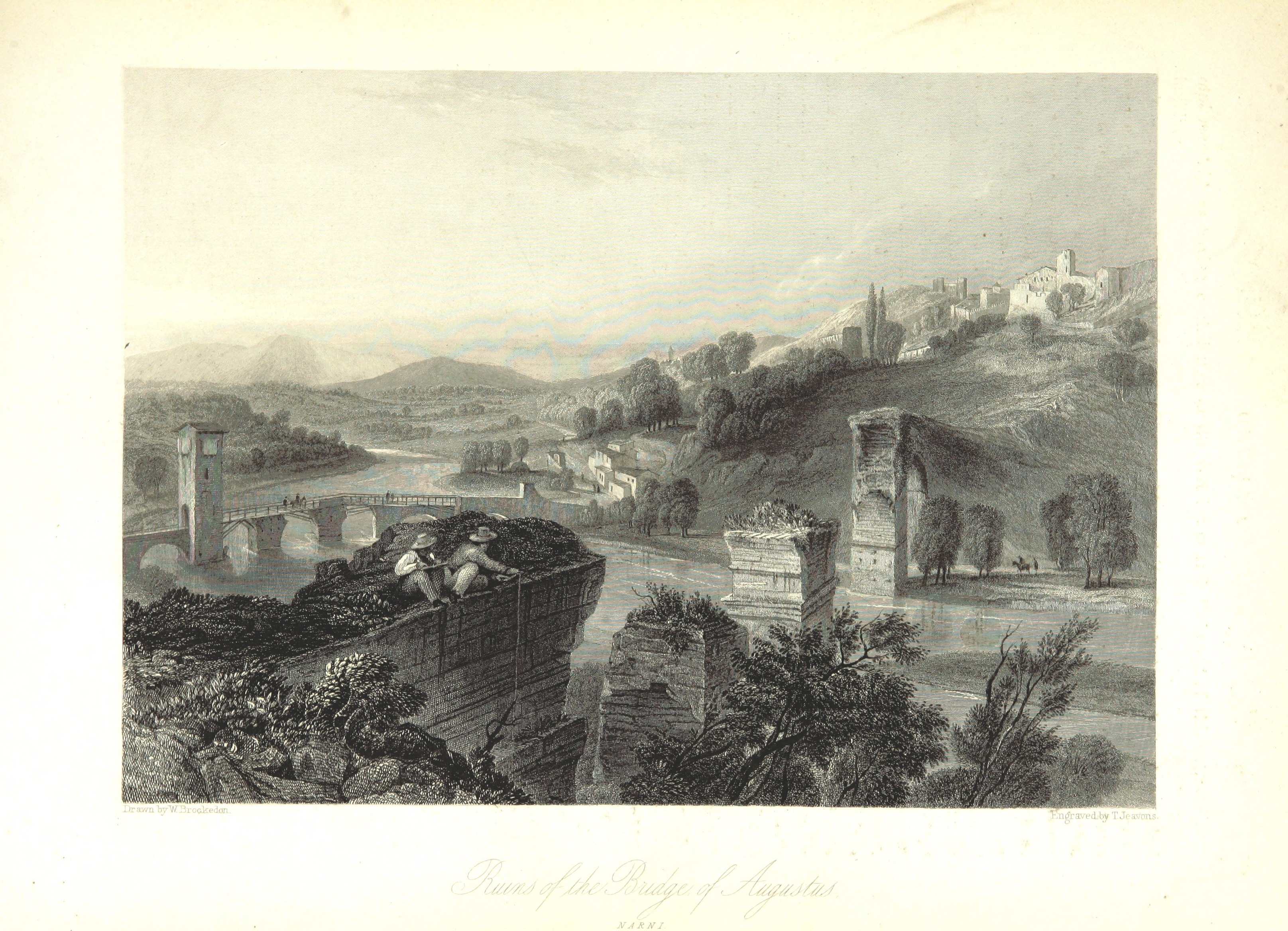 Image taken from: Title: "Italy, illustrated and described, in a series of views from drawings by Stanfield, R.A., Roberts, R.A., Harding, Prout, Leitch, Brockedon, Barnard, &c. &c. With descriptions of the scenes. And an introductory essay. on the political, religious, and moral state of Italy. By Camillo Mapei [translated by David Dundas Scott] ... And a sketch of the history and progress of Italy during the last fifteen years, 1847-62, in continuation of Dr. Mapei's essay. By the Rev. Gavin Carlyle", "Appendix. Travels, etc" Contributor: BROCKEDON, William. Contributor: SCOTT, David Dundas. Contributor: Stanfield, Clarkson Author: Italy Shelfmark: "British Library HMNTS 10151.f.6." Page: 351 Place of Publishing: London Date of Publishing: 1864 Publisher: Blackie & Son Issuance: monographic Identifier: 001828371 Rotated by Mac9